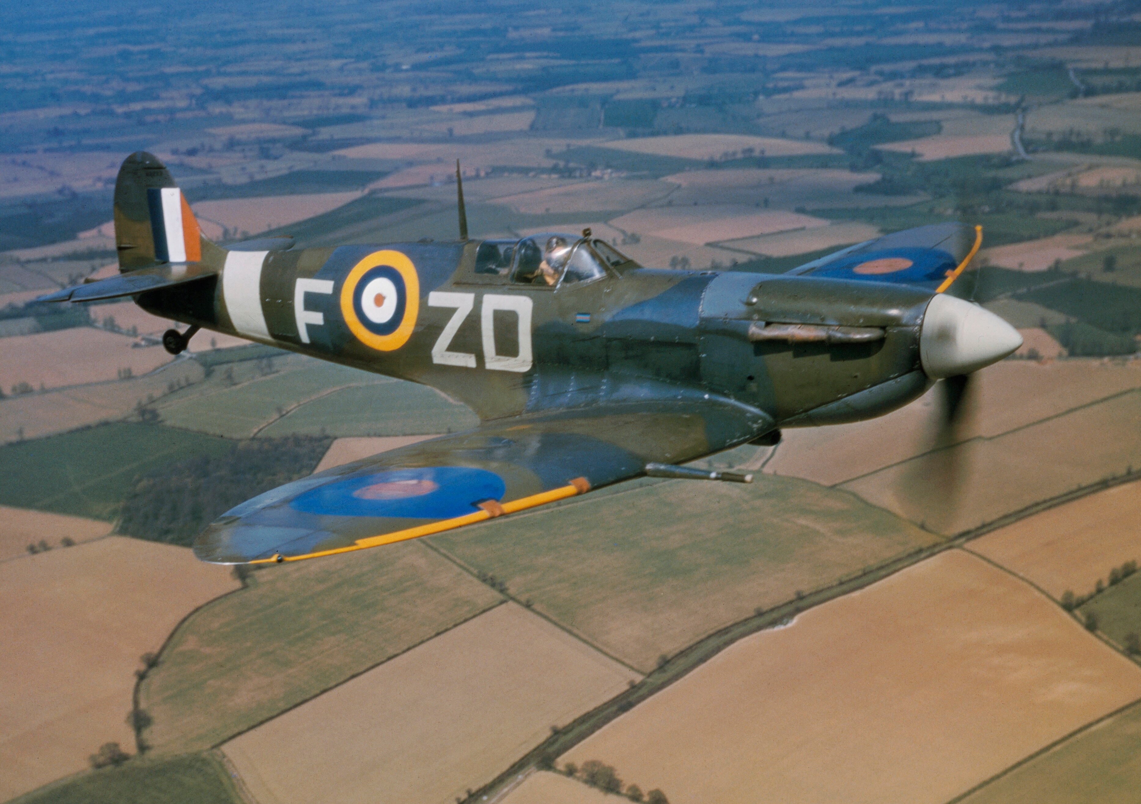 A Royal Air Force Spitfire Mark VB (AD233, 'ZD-F') being flown by the Commanding Officer of No. 222 Squadron RAF, Squadron Leader Richard Milne, when based at North Weald, Essex (RAF). On 25 May 1942, AD233 was shot down by German Focke Wulf Fw 190s over Gravelines (France), while being flown by Squadron Leader Jankiewicz. This particular Spitfire was part of the Spitfire Fund raising from the Dutch East Indies. On the left side it carried the presentation name "West Borneo I"